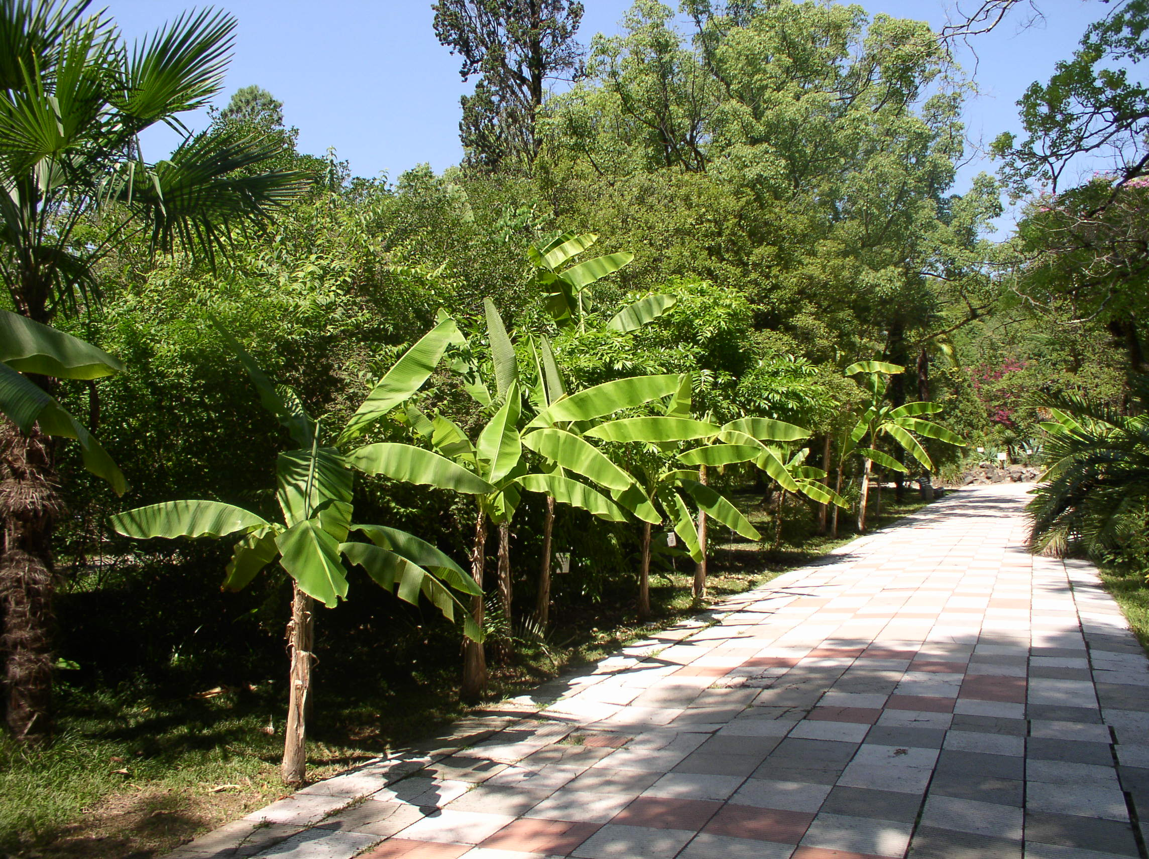 Main avenue of the Sukhumi botanical garden, Abkhazia. The is avenue lined by banana plants.